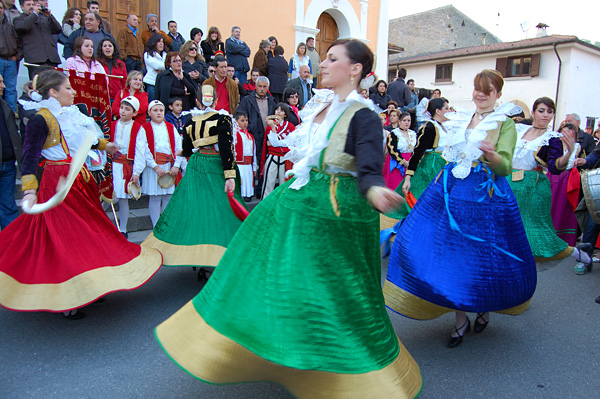 Typical Arbëreshë female costumes worn during the Vallje dances in San Basile.